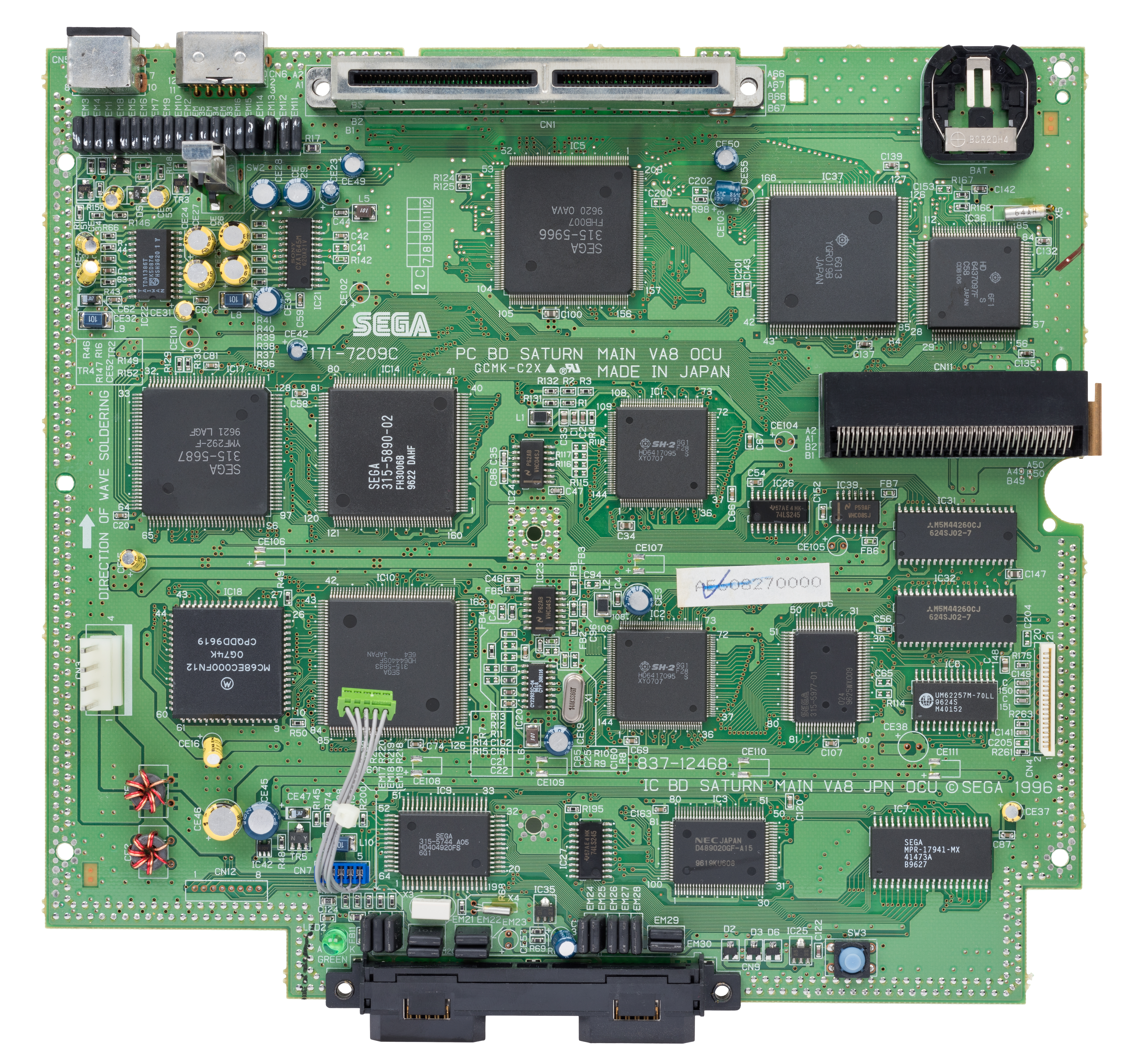 The motherboard for an American model Sega Saturn video game console. The board is a "VA8" revision.